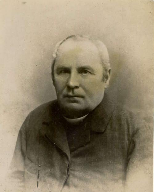 Lavoslav Gregorec (1839-1924)